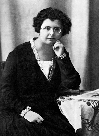 Jarmila Hasek, first Jaroslav Hasek's wife